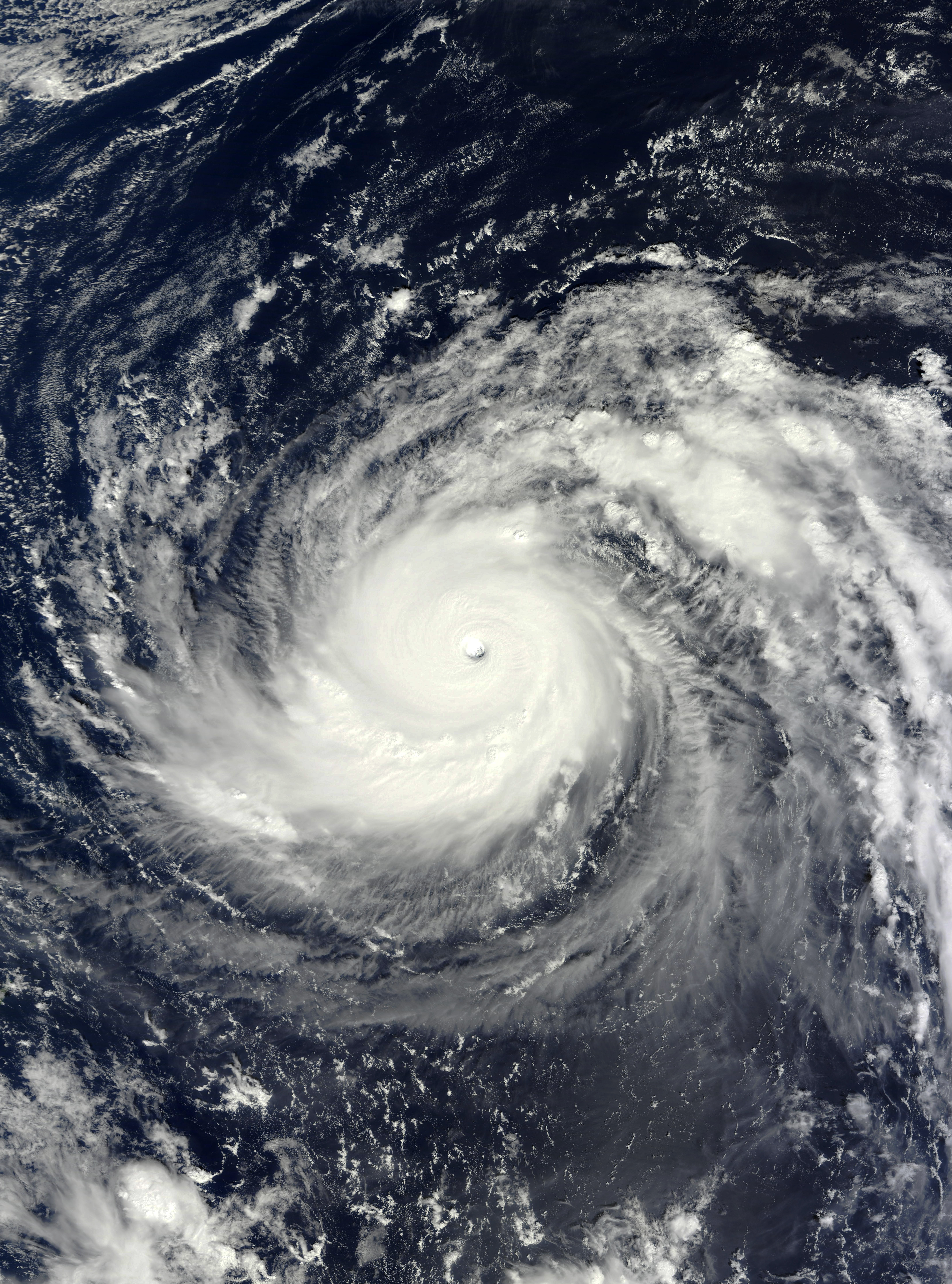 Typhoon Lekima at peak intensity on October 23, 2013